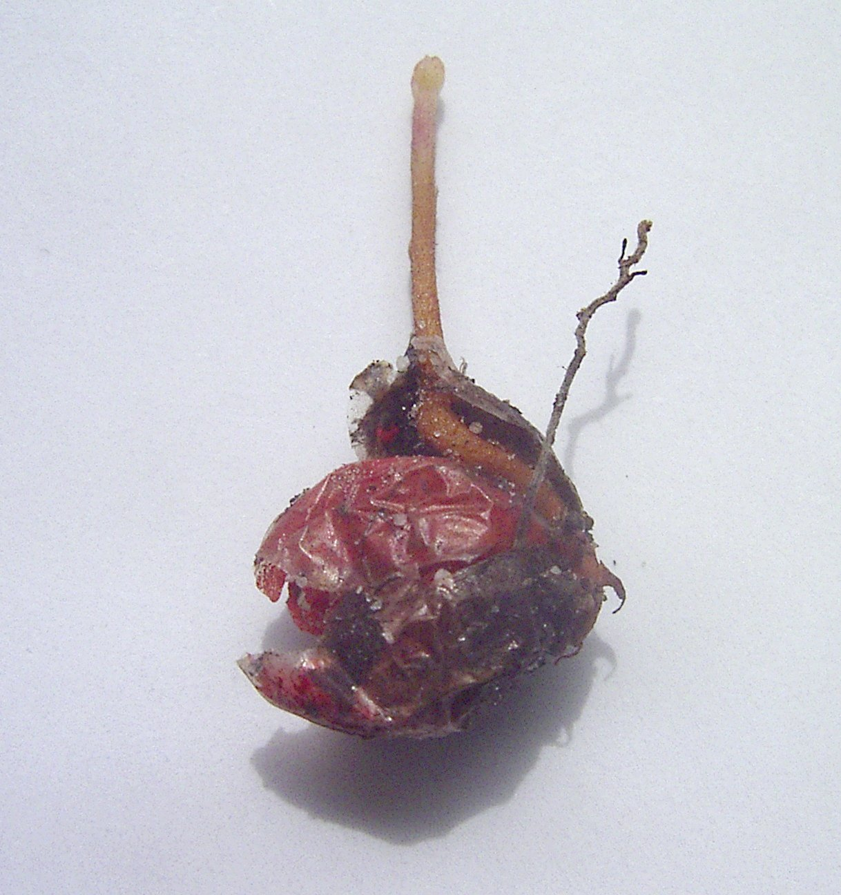 Drosera zonaria tuber Author: Denis Barthel